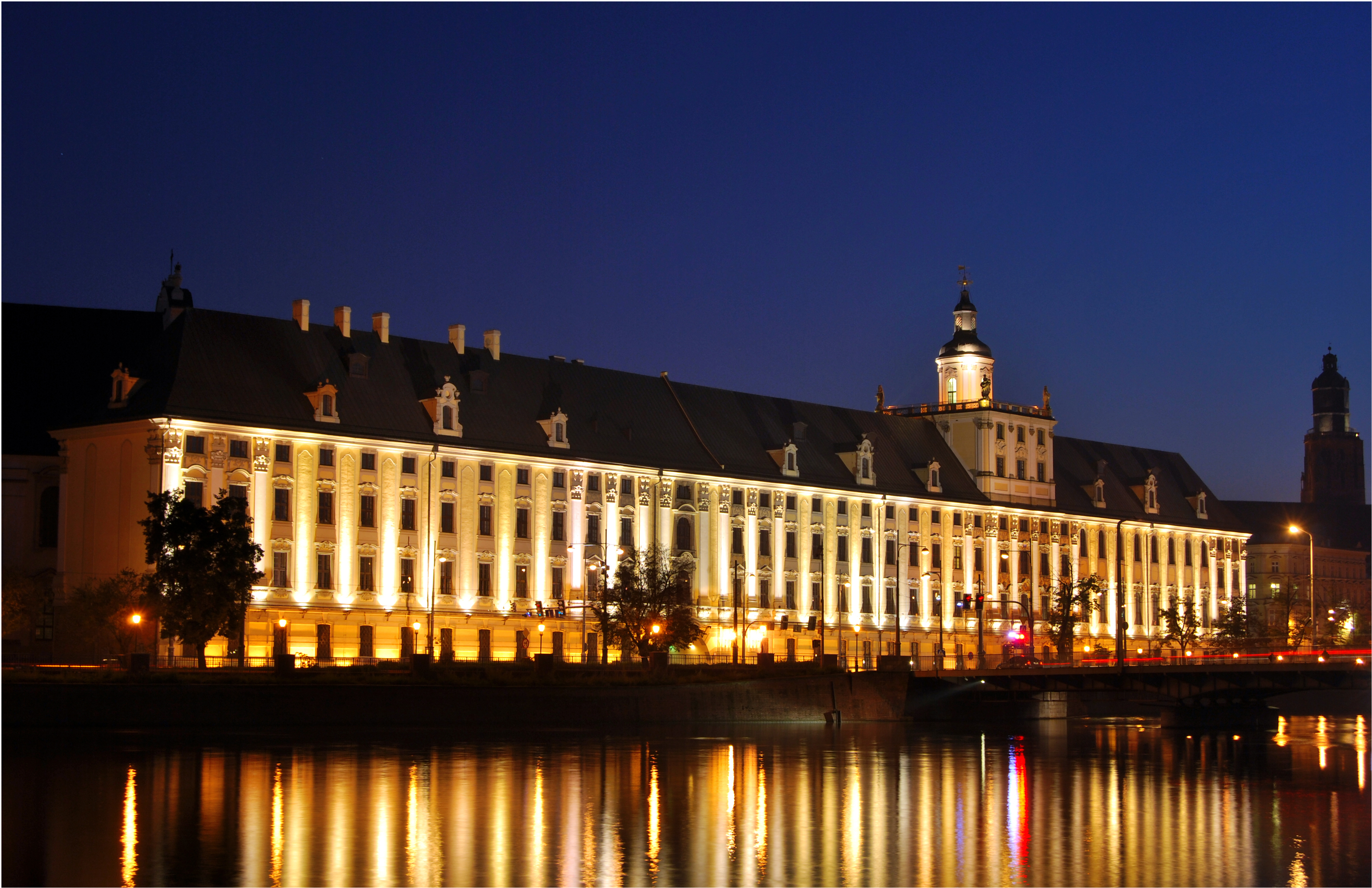 The University of Wrocław